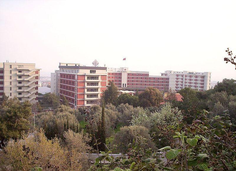 General view of İzmir University of Economics in Balçova, İzmir, Turkey